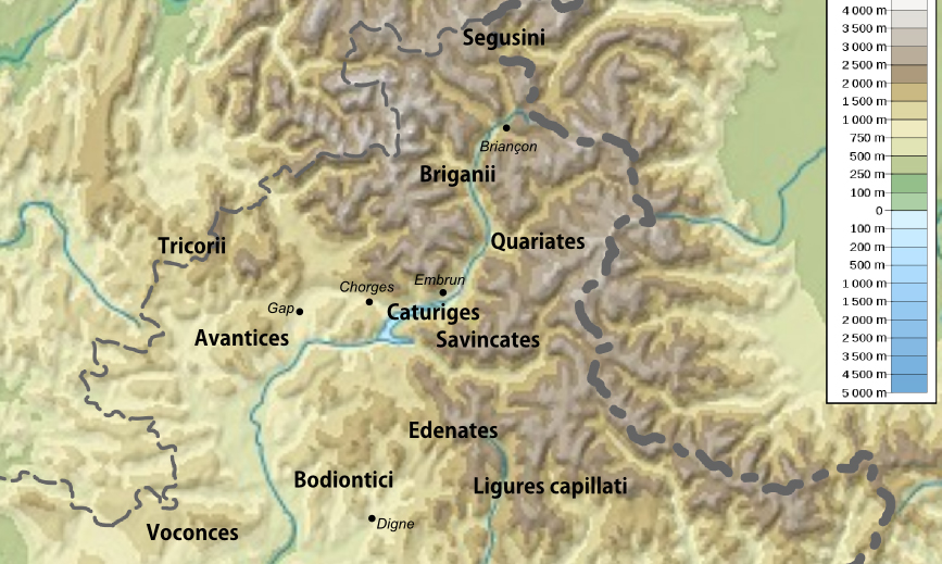 Topographic map of Provence-Alpes-Côte d'Azur